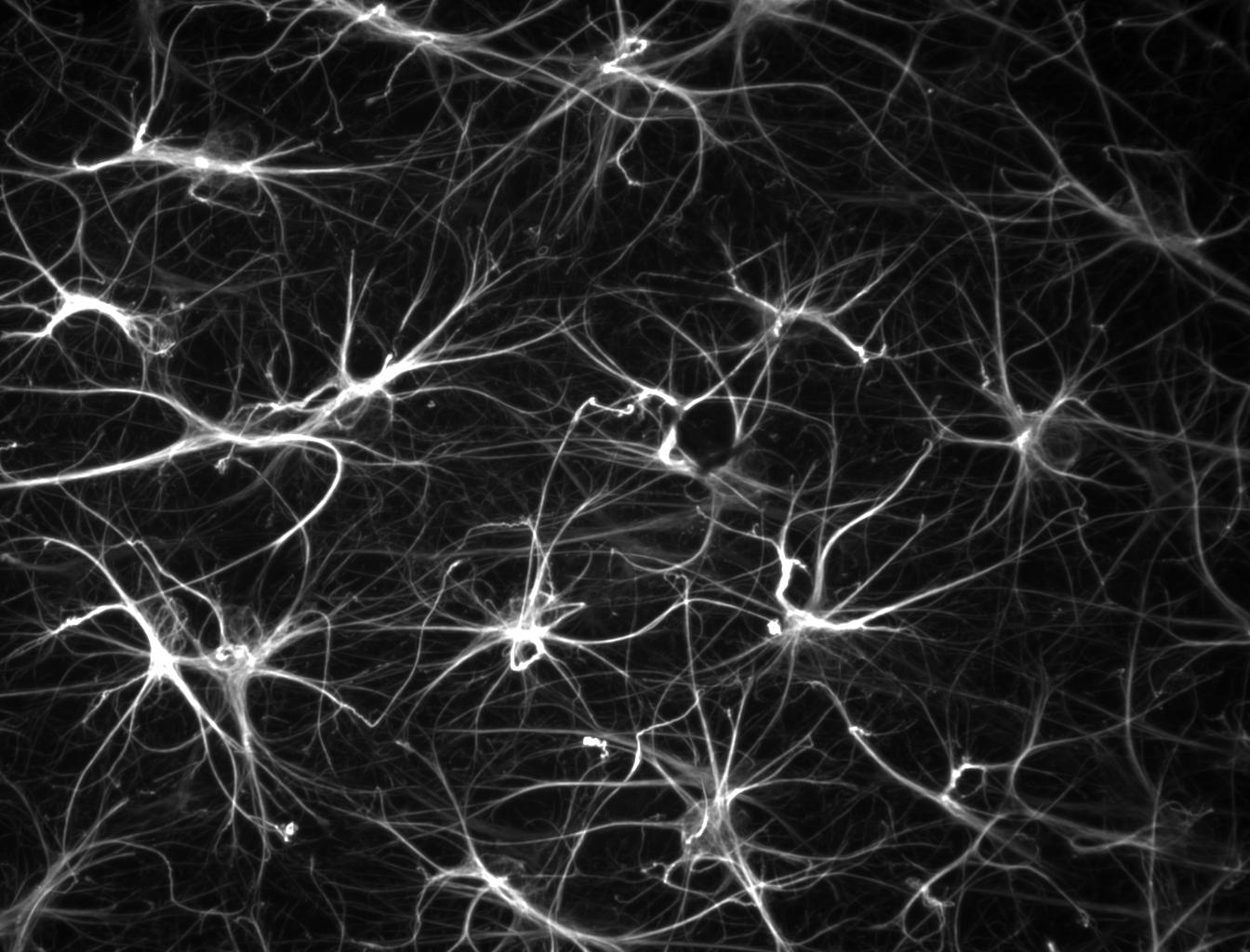 Immunostaining against GFAP in hippocampal astrocytes of mice